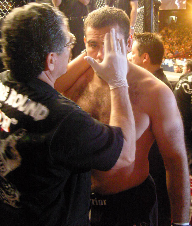 Cutman Jacob "Stitch" Duran prepares Gabriel "Napão" Gonzaga for a match by applying petroleum jelly to his face.